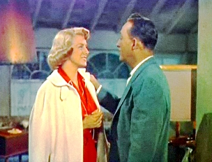 Cropped screenshot of Rosemary Clooney and Bing Crosby from the trailer for the film White Christmas